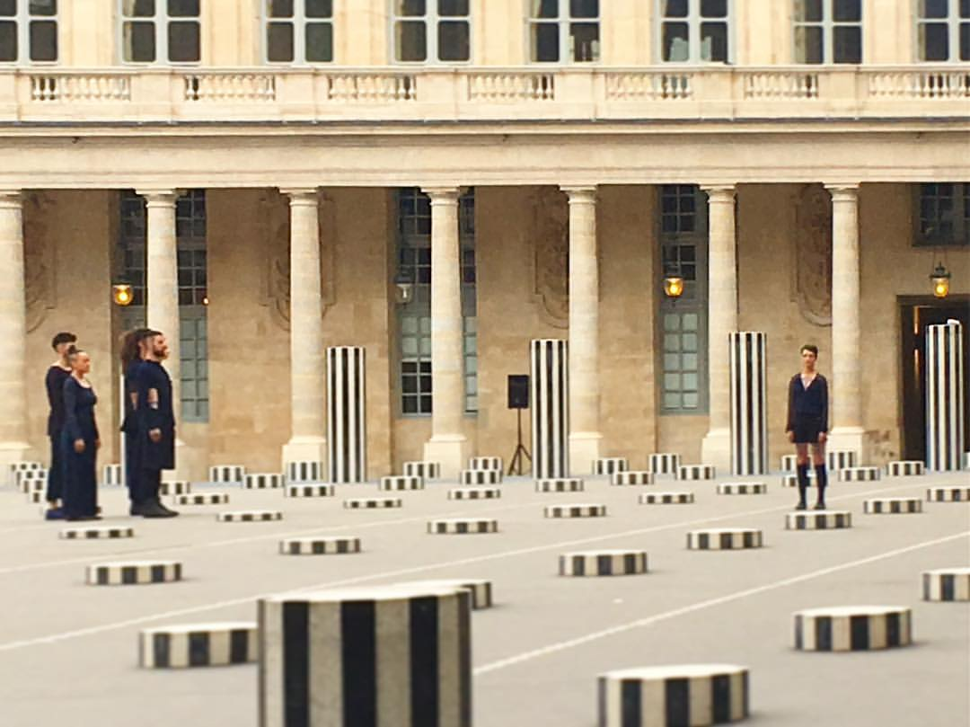 Dancers add a further element to the Buren installation at the Palais-Royal.